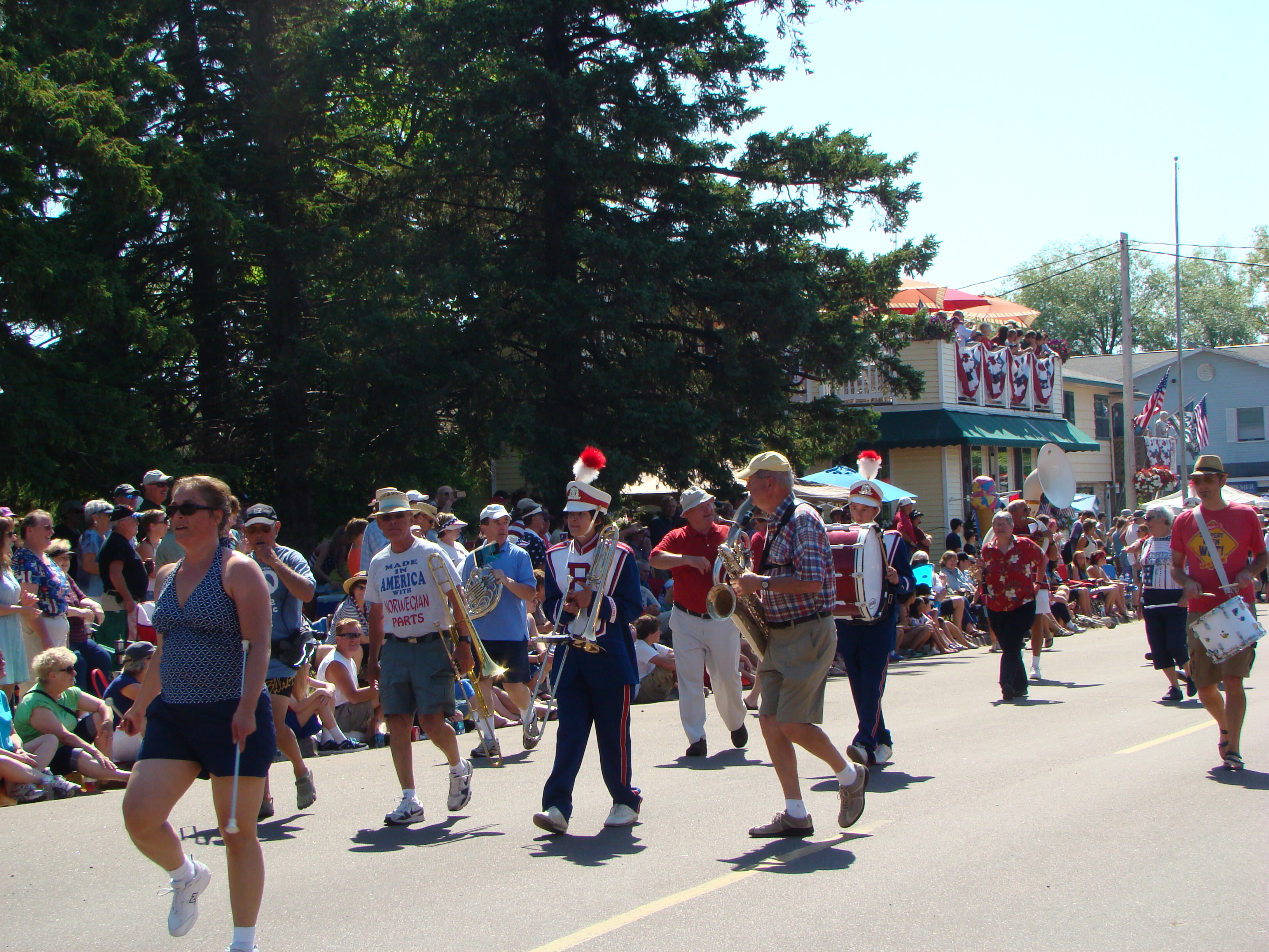 A photograph of the 2013 Fourth of July Parade on Madeline Island.